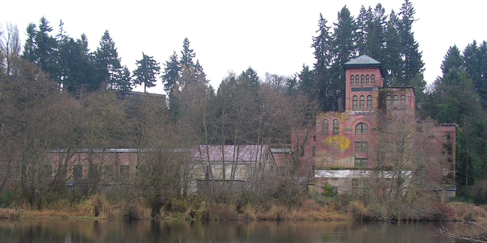 The old Olympia Brewery sits on the Deschutes River in Tumwater, Washington.